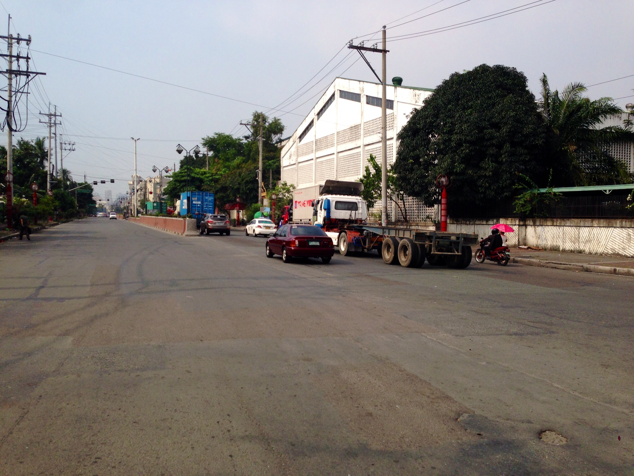 Quirino Avenue extension looking north towards Nagtahan from Plaza Dilao, Paco, Manila